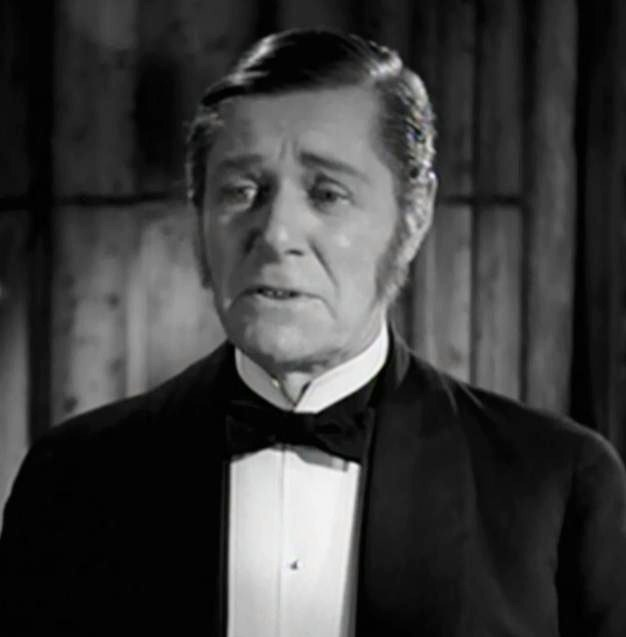 Gilbert Emery in Little Lord Fauntleroy (cropped screenshot)